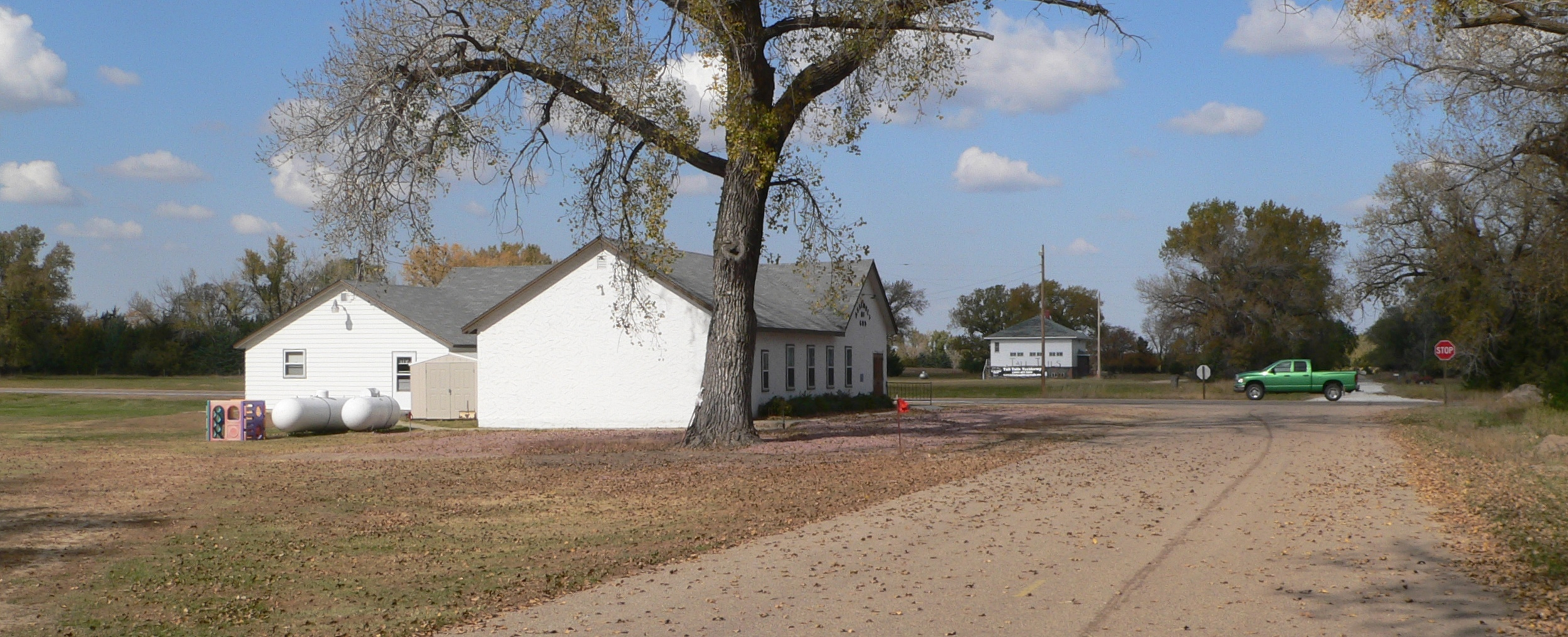 Burton, Nebraska; seen from the south. In the foreground is the Assembly of God church; to its right, in the background, is Tall Tails Taxidermy. The green pickup is westbound on Nebraska Highway 12.